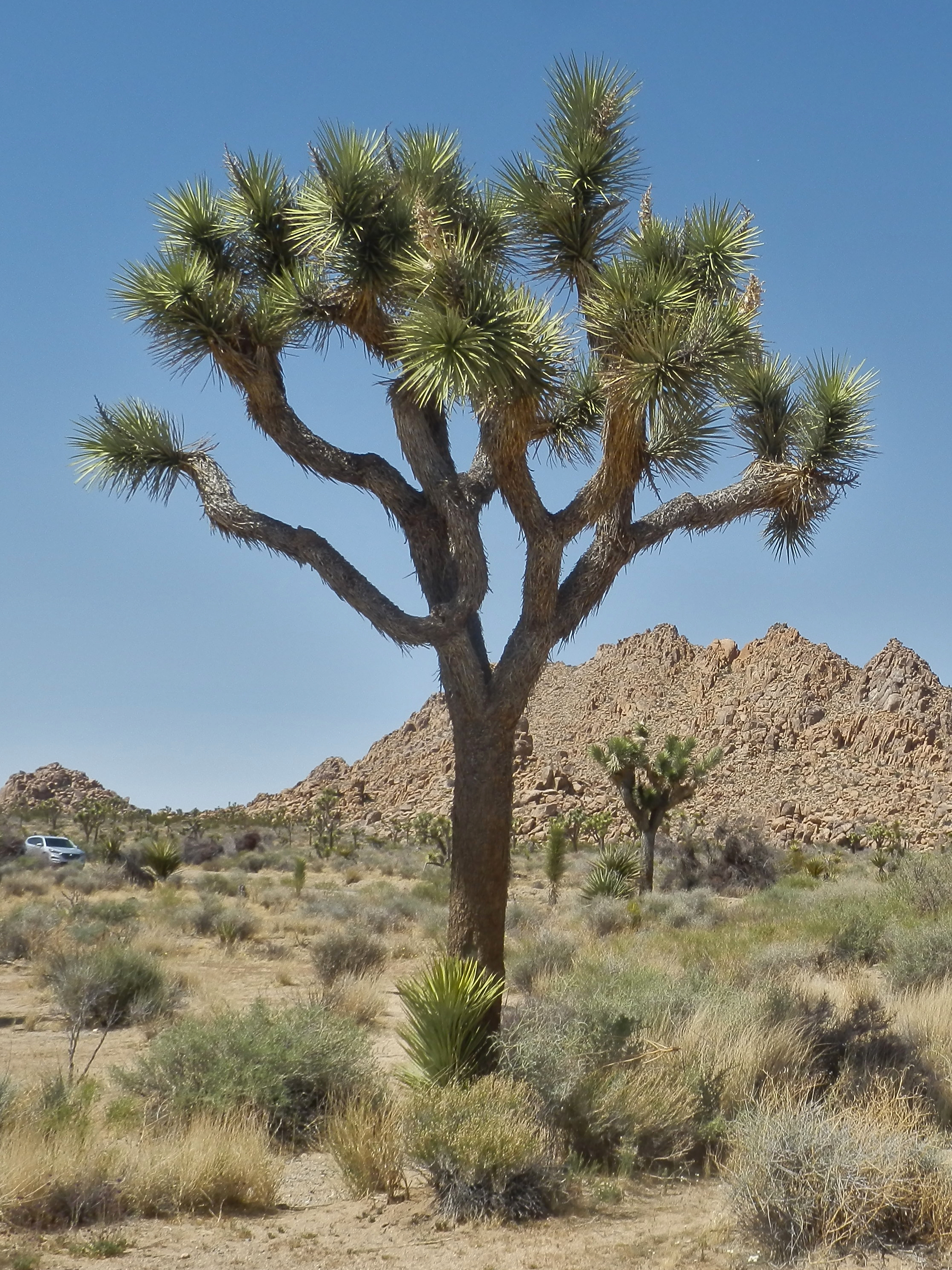 Joshua Tree